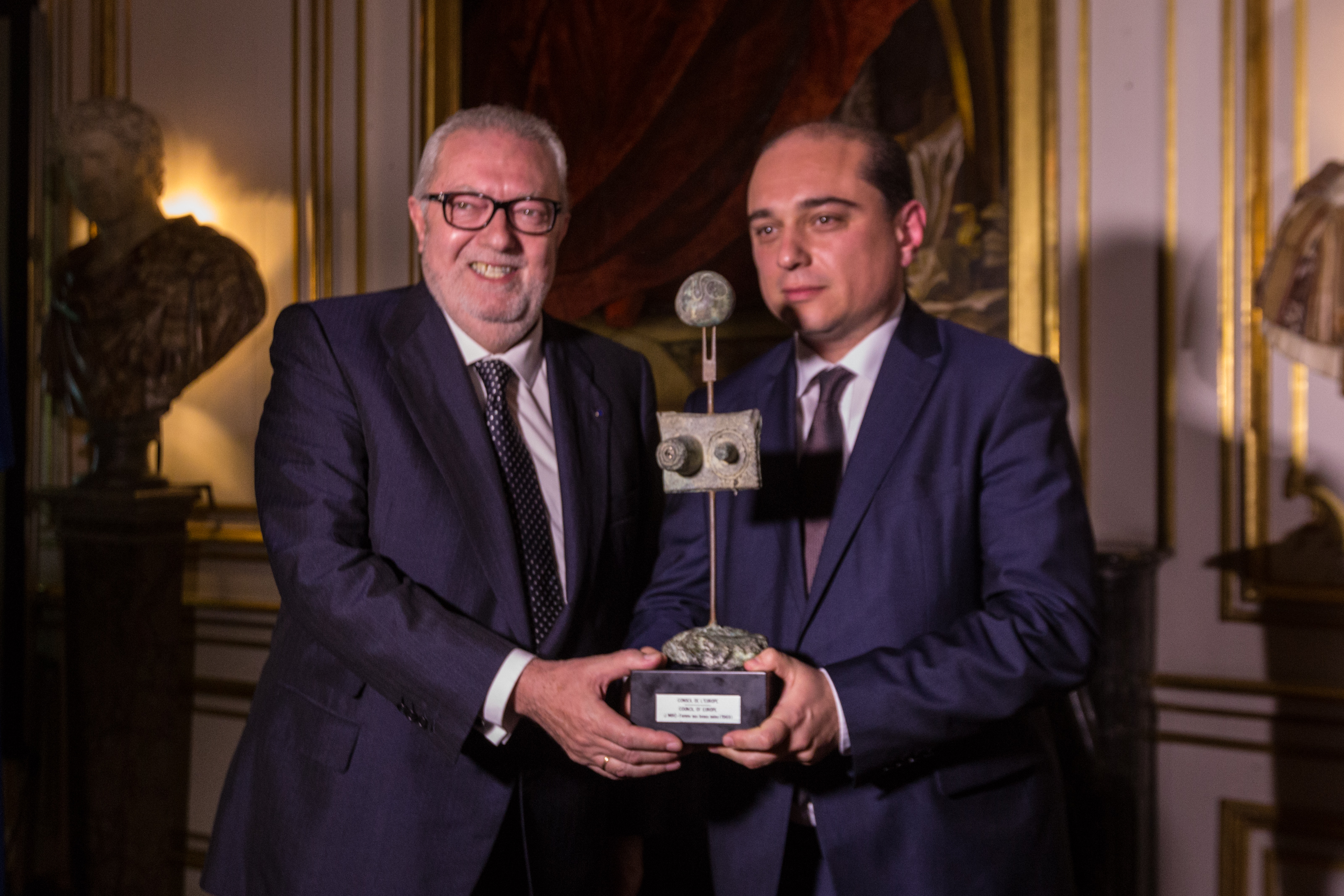 Pedro Agramunt and Basil Kerski. Council of Europe Museum Price Winner 2016 at Palais Rohan Strasbourg France